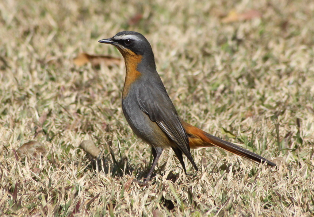 Cape Robin-Chat at Walter Sisulu National Botanical Garden, near Roodepoort, Johannesburg, South Africa